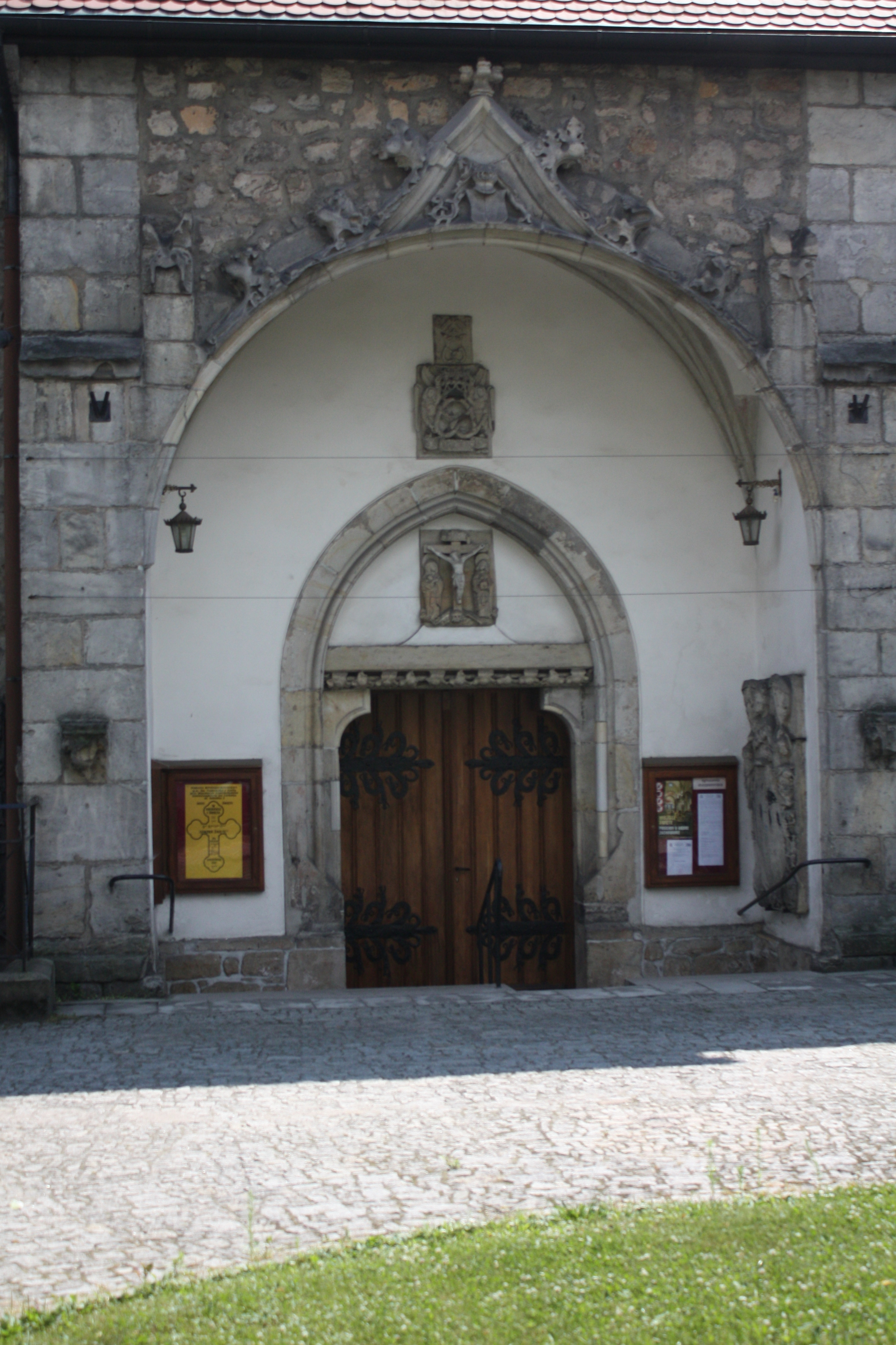 This photo of Lower Silesian Voivodeship was taken during Wikiexpedition 2013 set up by Wikimedia Polska Association.You can see all photographs in category Wikiekspedycja 2013.